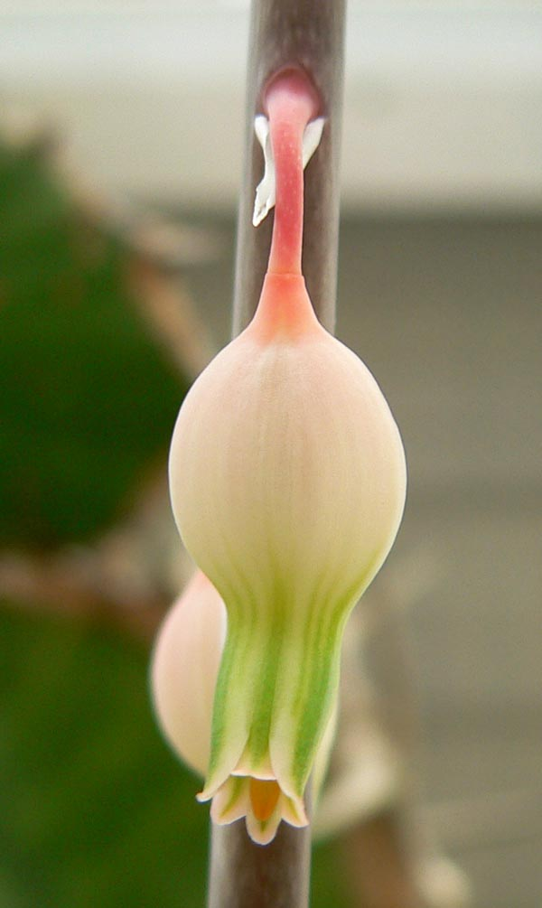 Photo of Gasteria bicolor var. bicolor at the University of California Botanical Garden